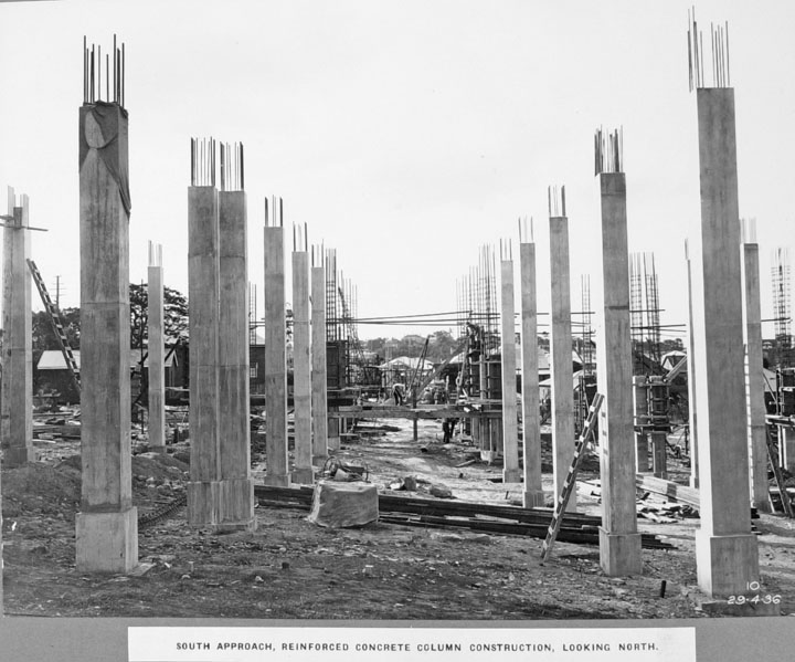 South approach, reinforced concrete column construction, looking north, Brisbane. (Story Bridge construction)